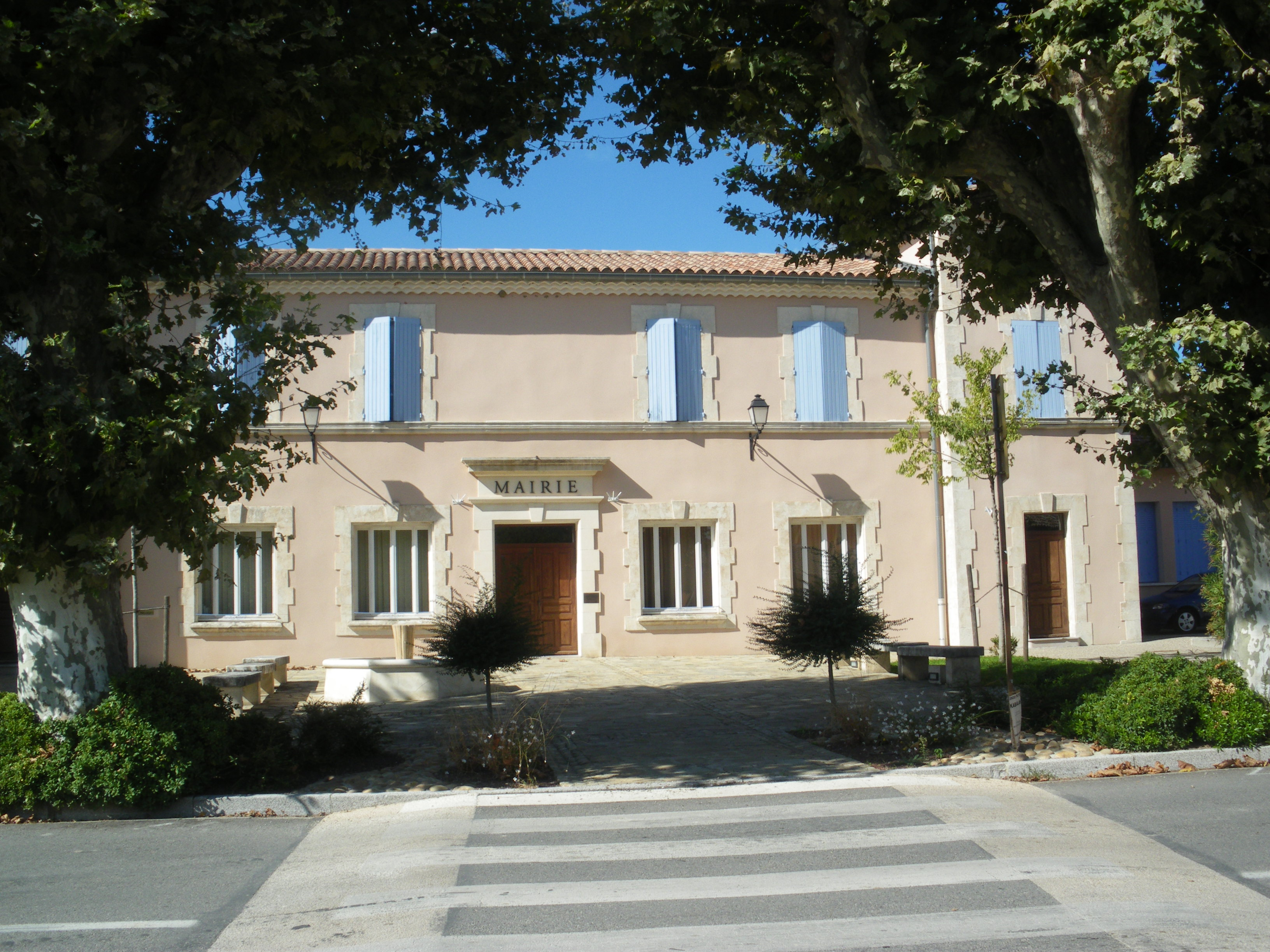 Town hall of Roaix, Vaucluse, France